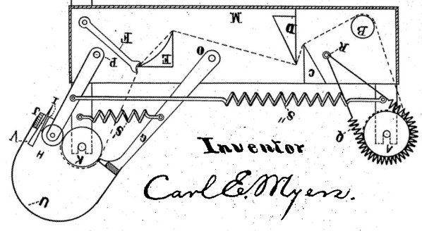 Myers machine for varnishing cloth material for making balloons